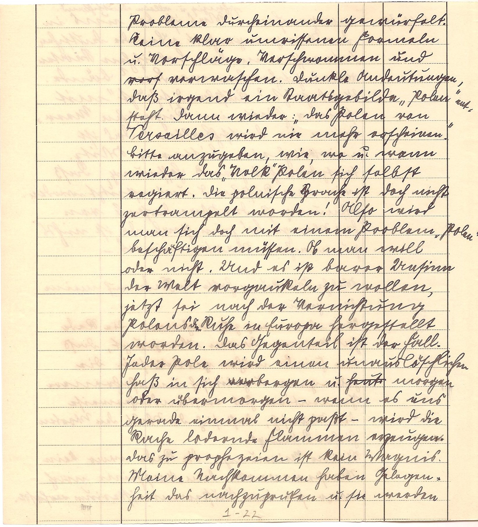 A page from the Friedrich Kellner diary. This entry of October 6, 1939 refers to the partition of Poland and warns that the Polish people will have their revenge. This entry takes up four pages in the diary. This is the fourth page of that entry.